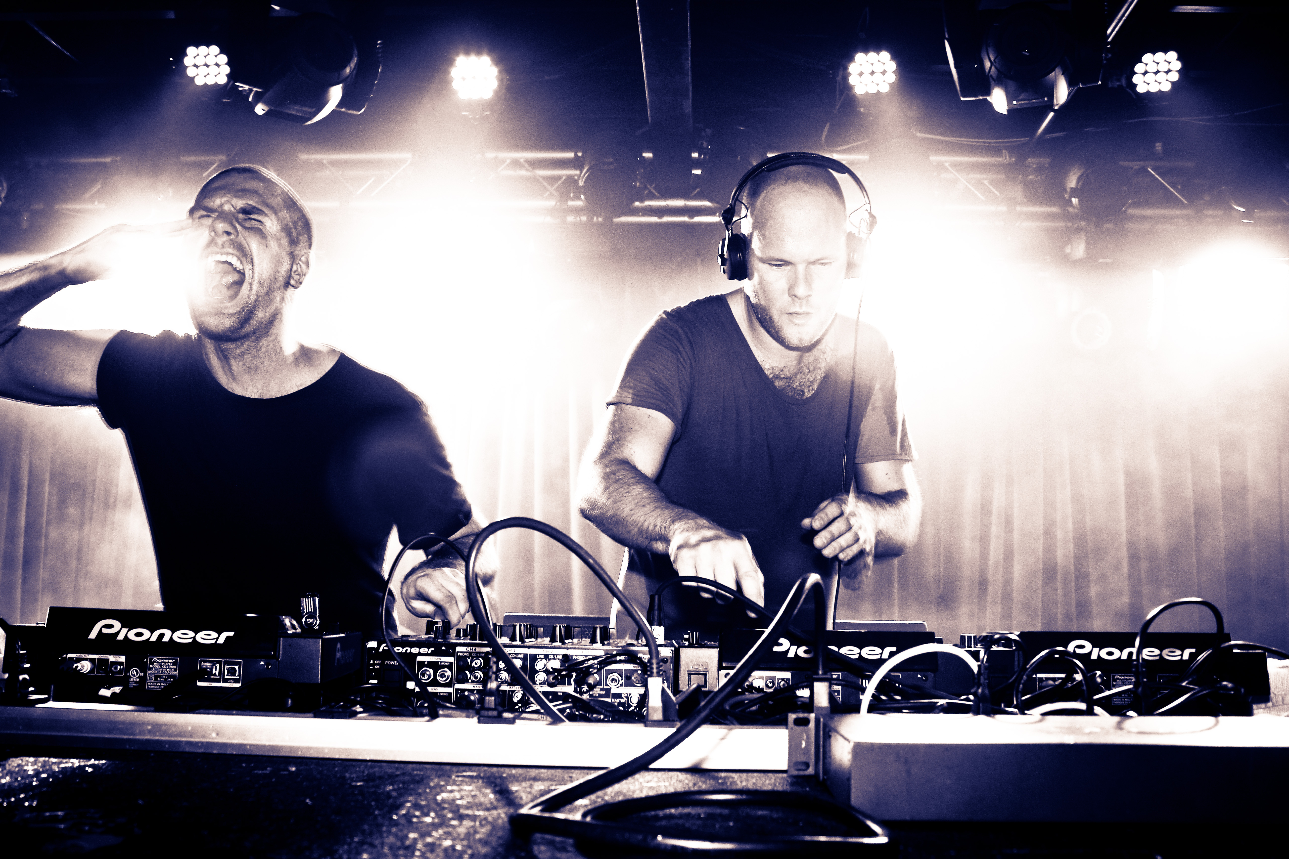 Dada Life live at London Music Hall 2011